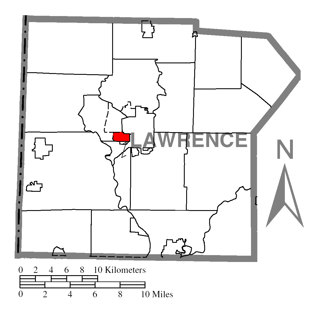 Map of Lawrence County higlighting Oakland.